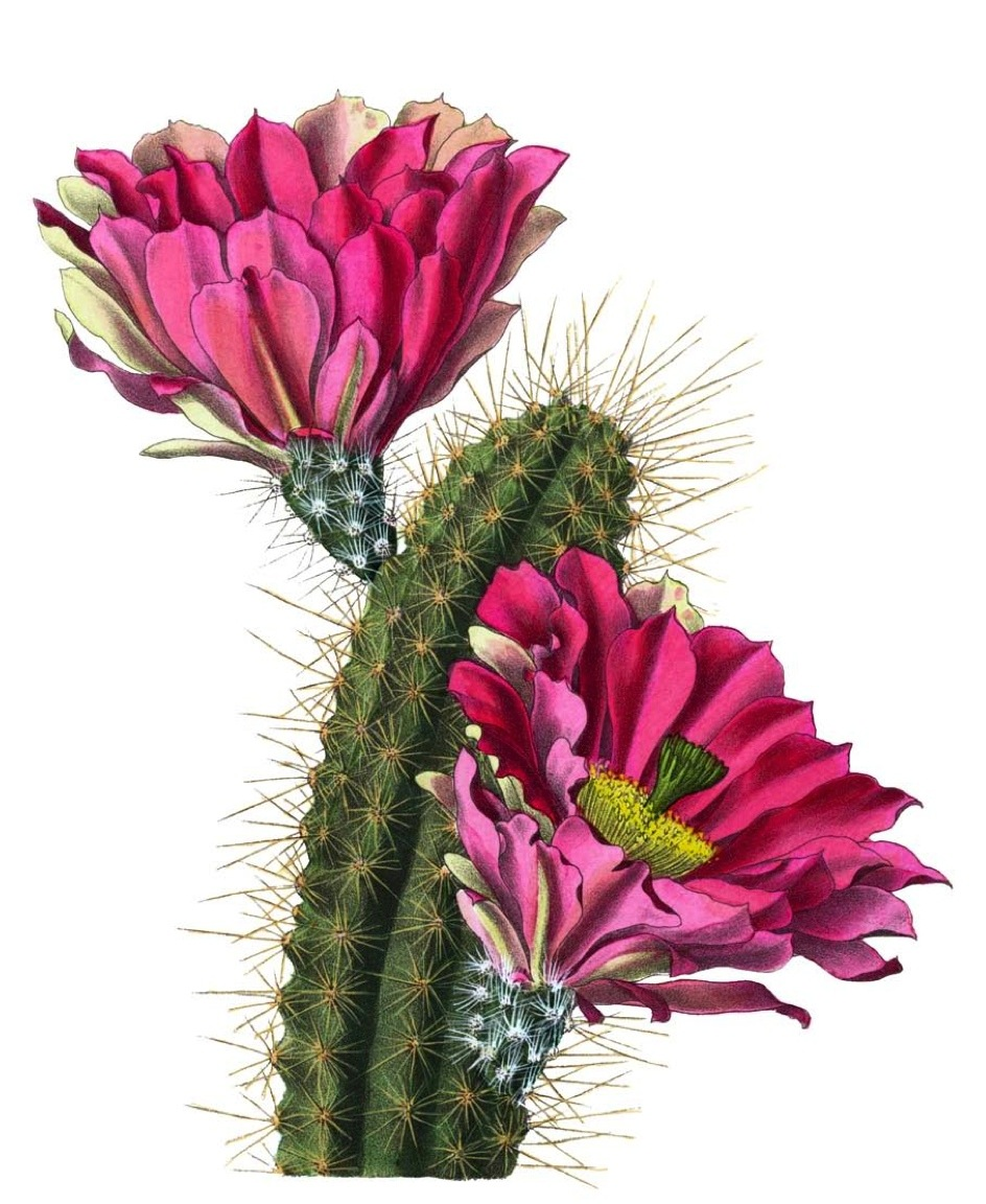 Echinocereus fendleri